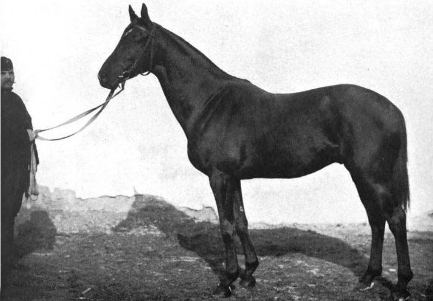 2,000 Guineas stakes winner Slieve Gallion in 1912.